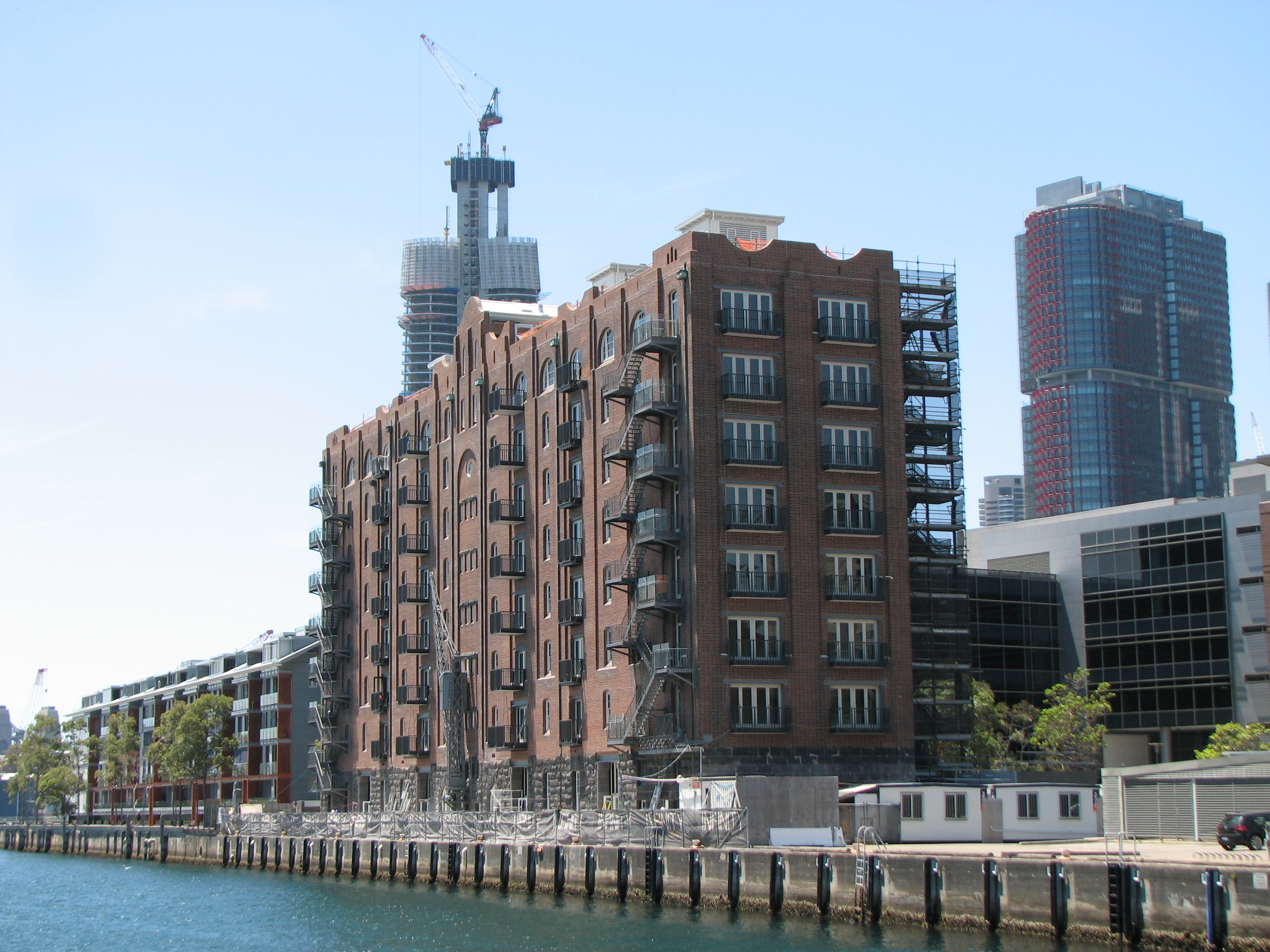 Royal Edward Victualling Yard, 38-42 Pirrama Road, Pyrmont, NSW is listed on the New south Wales State Heritage Register